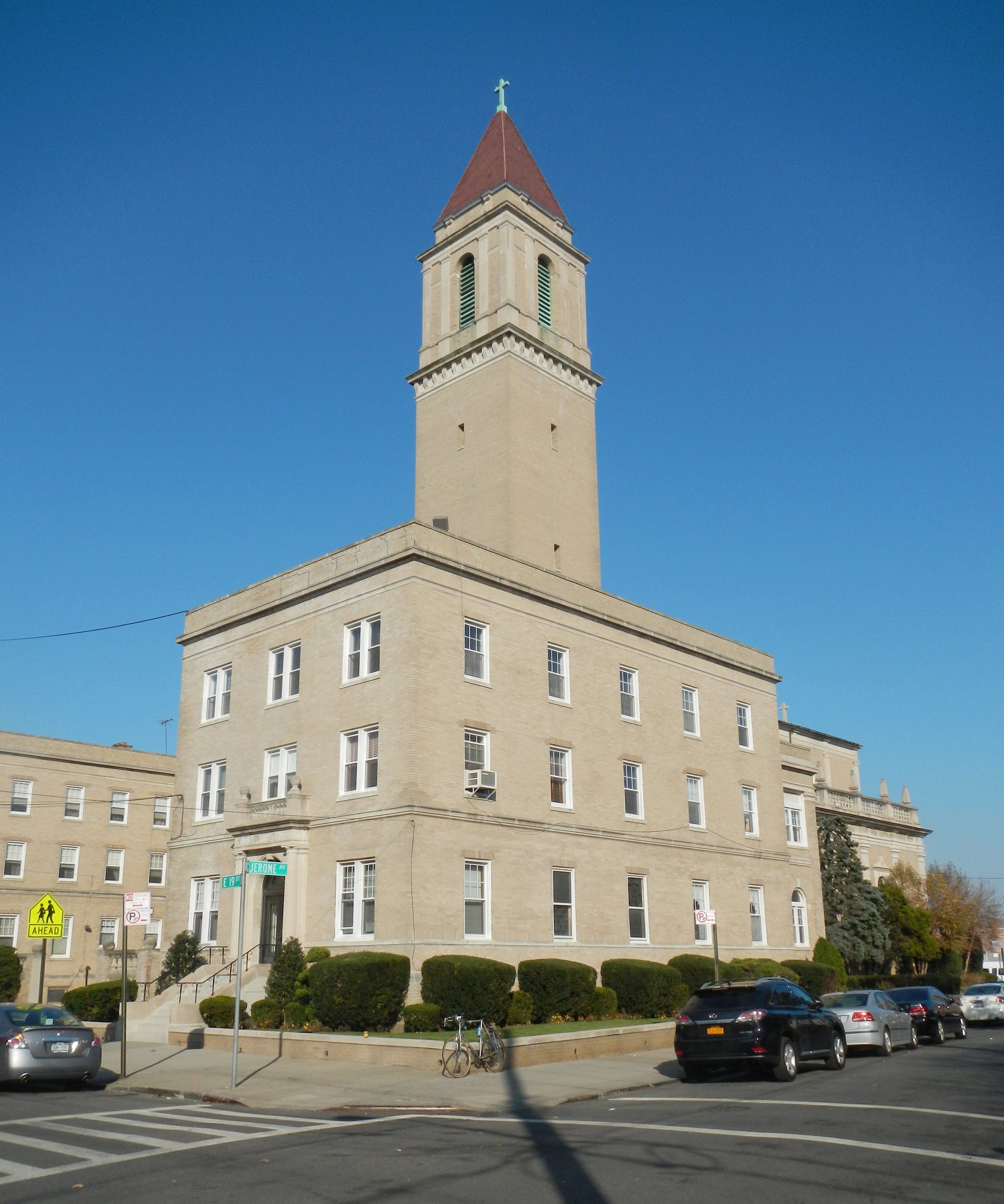 Looking northeast across East 19th Street and Jerome Avenue at St Mark's on a sunny early afternoon.